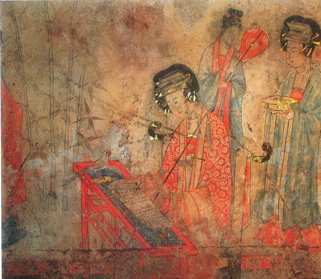 Fresco from Liao Dynasy Tomb at Baoshan, Ar Horqin, Inner Mongolia, China.